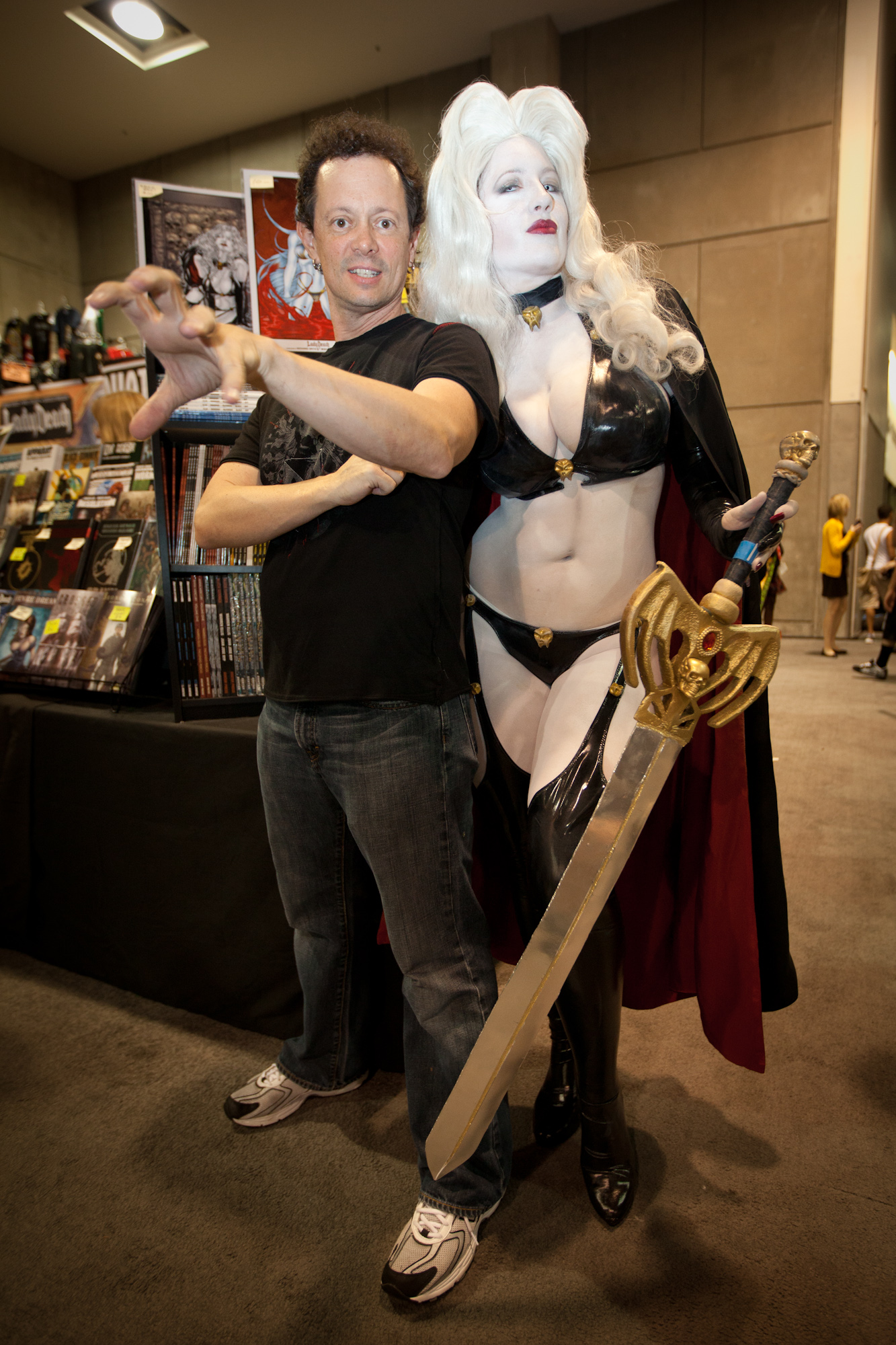 The writer Brian Pulido, one of the creators of the Lady Death character, with the cosplayer BelleChere, cosplaying as Lady Death, at San Diego Comic-Con International 2010.